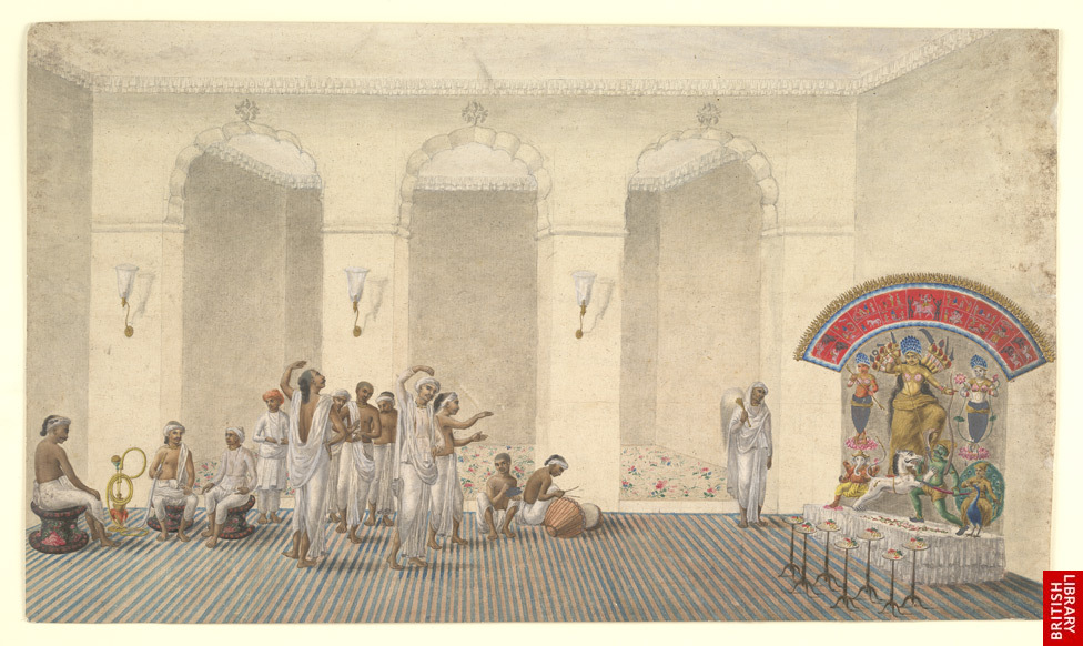 Durga Puja, a watercolor by Sevak Ram, c.1809* (BL)